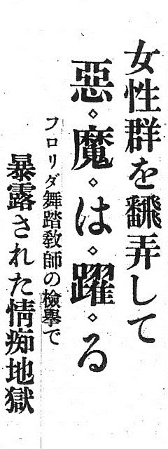 Tokyo Asahi Shimbun newspaper clipping (15 November 1933 issue)